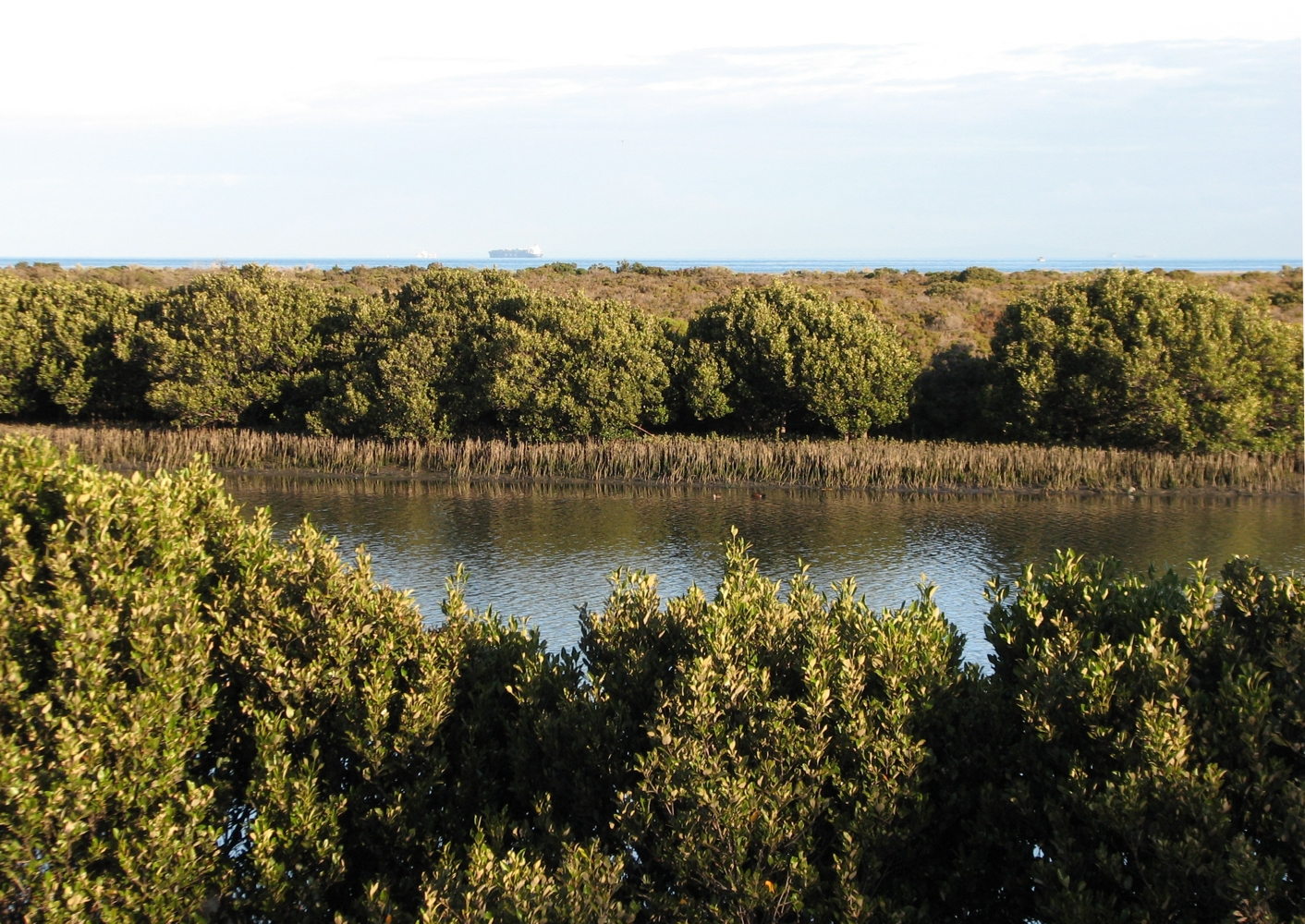 Mangroves (Avicennia marina) on Kororoit Creek, Altona Coastal Park, Victoria, Australia